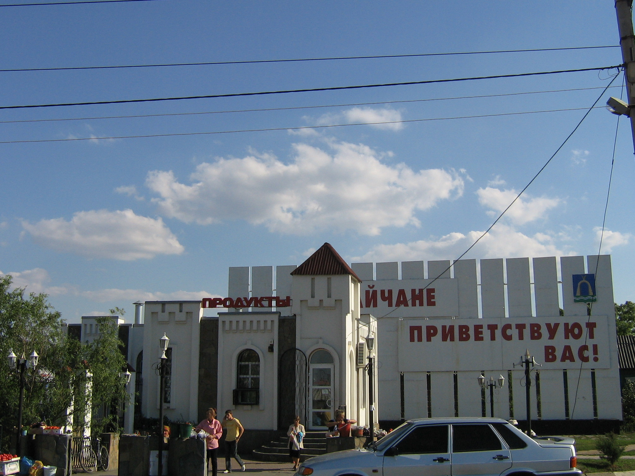 Bataysk)